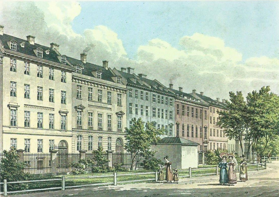 Kronprinsessegade in Copenhagen, Denmark